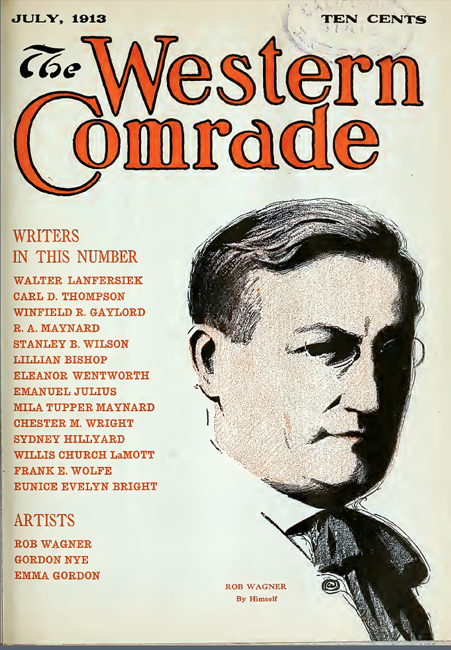 Magazine cover by Rob Wagner